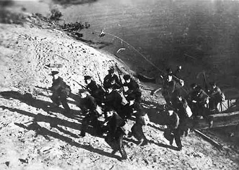 Soviet Marines In Stalingrad Public Domain In Russia, because it was taken by a soviet army photographer and therefor belongs to the government.